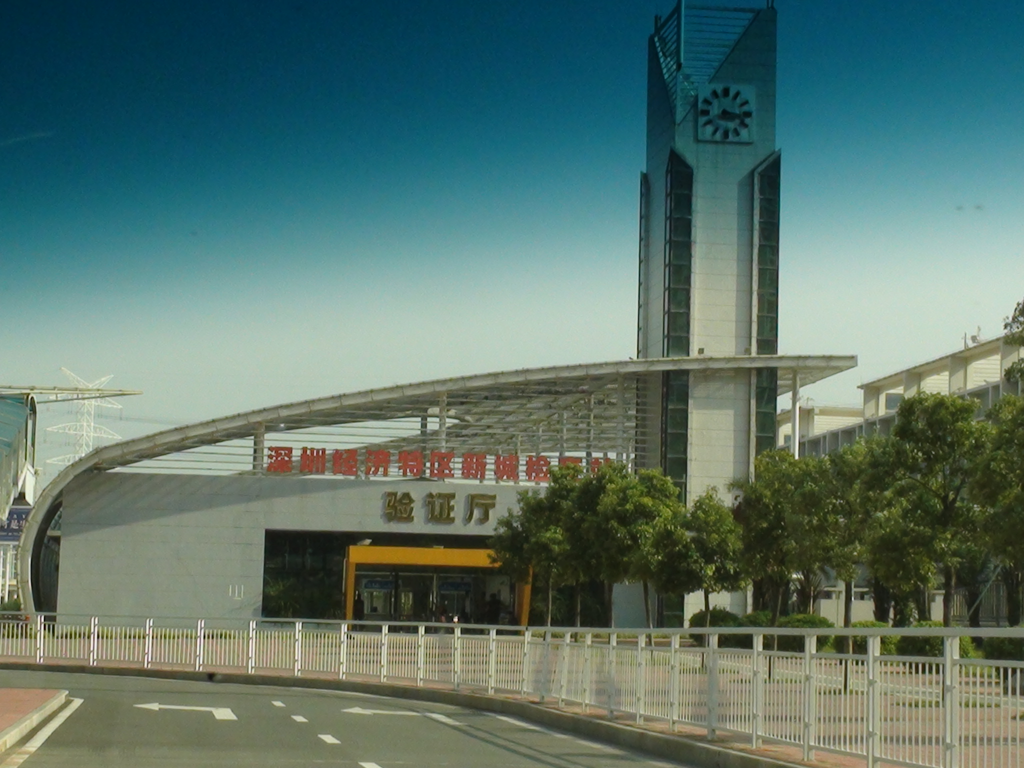 Xincheng Checkpoint in Shenzhen, China